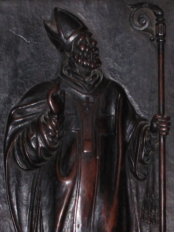 Venerius (bishop of Milan) - wooden statue in the Choir (1567-1614) of the Cathedral of Milan